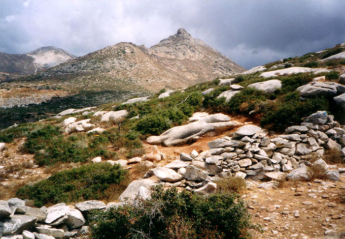 Kouros near Melanes, Naxos, Greece